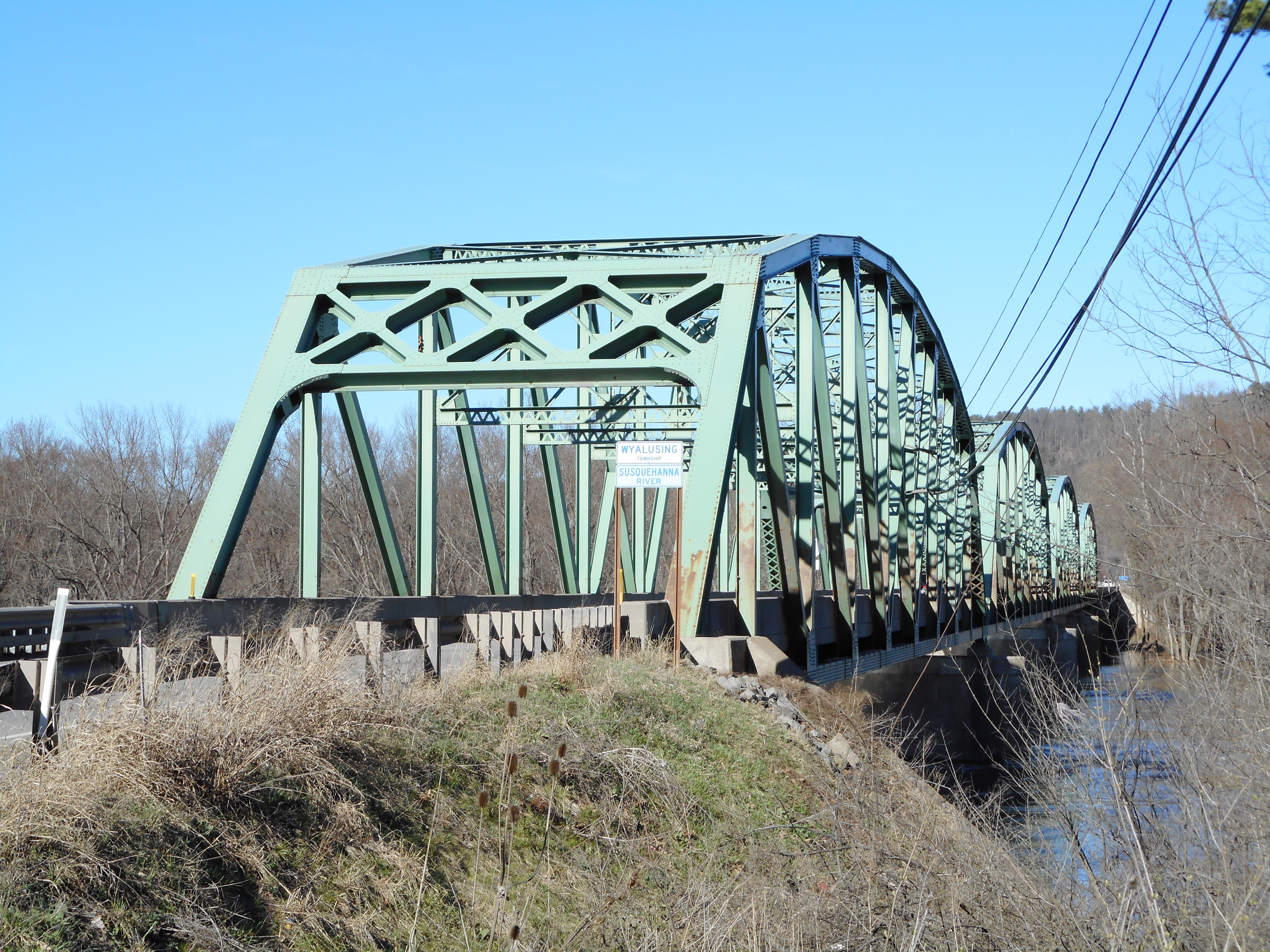 Bridge over the Susquehanna Rivers near Wyalusing, PAwyalusing Township between Terry Township, Bradford County (this side) and